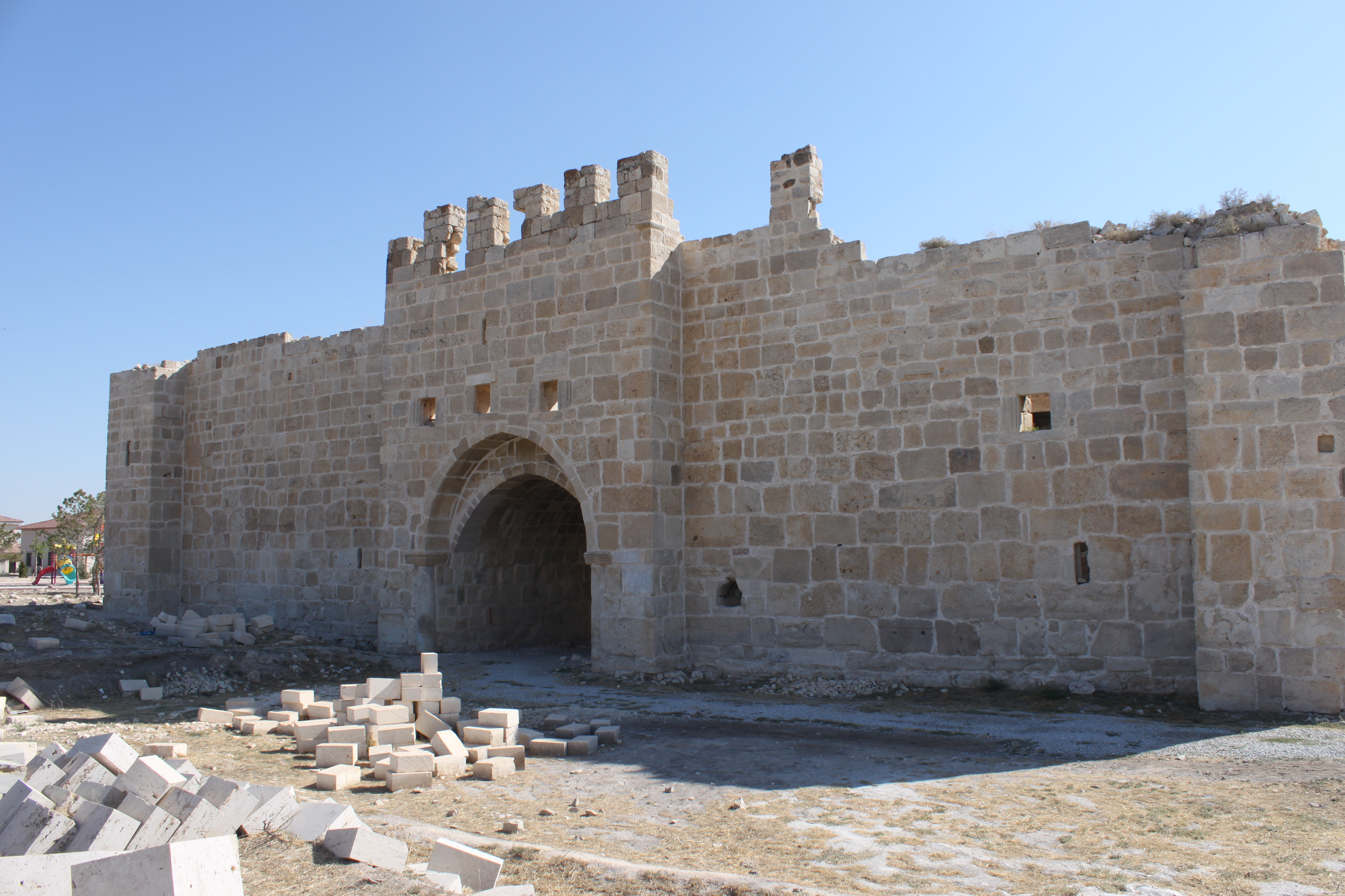 Obruk Hanı, gate side